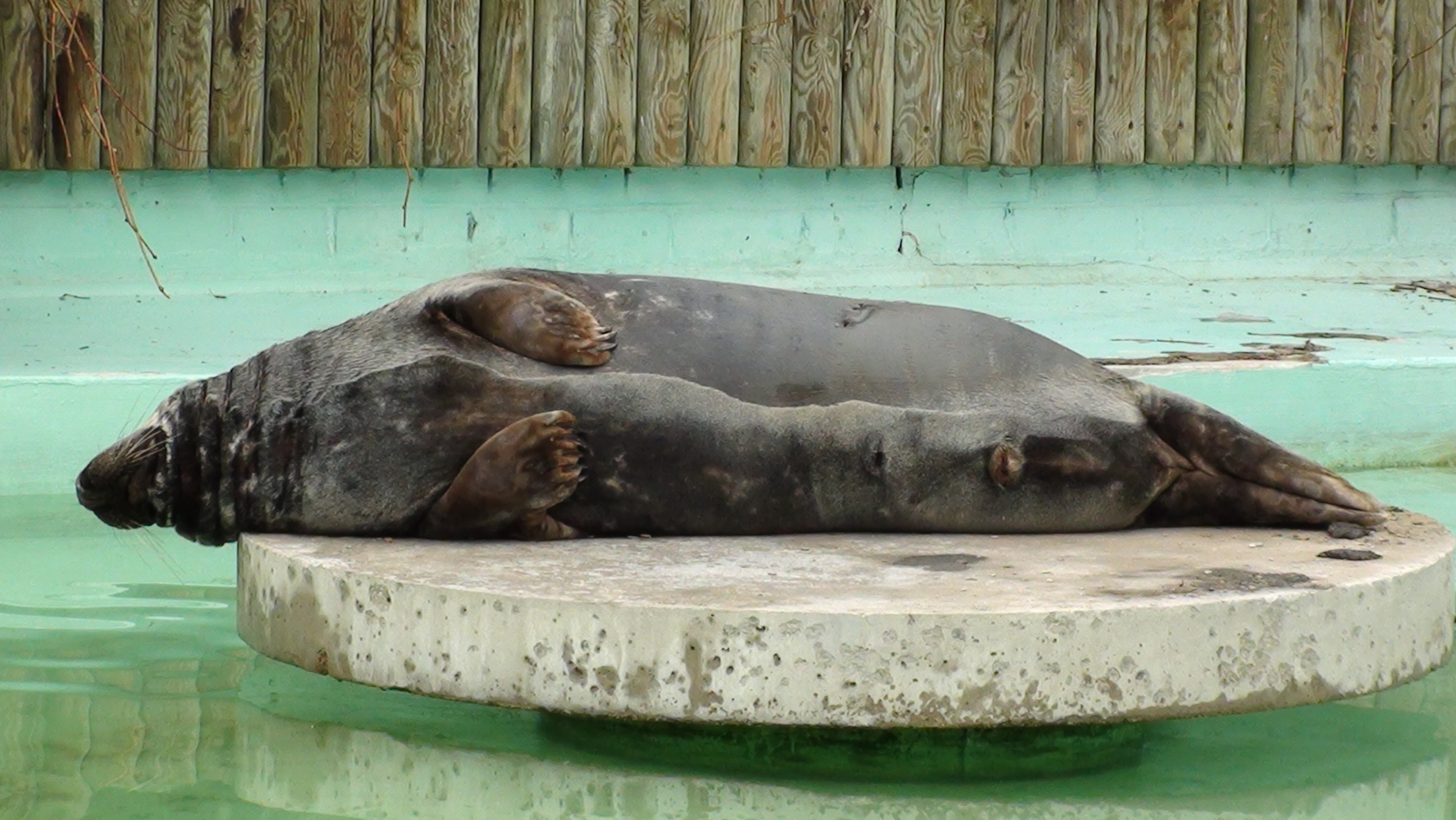 grey seal (Halichoerus grypus) in Tallinn Zoo